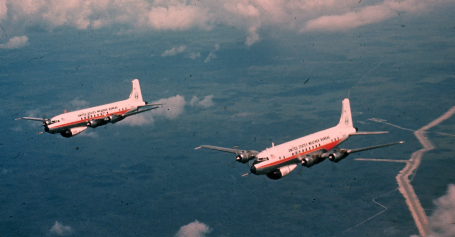 Two Douglas DC-6 of the United States Weather Bureau, today the National Oceanic & Atmospheric Adminstration (NOAA).